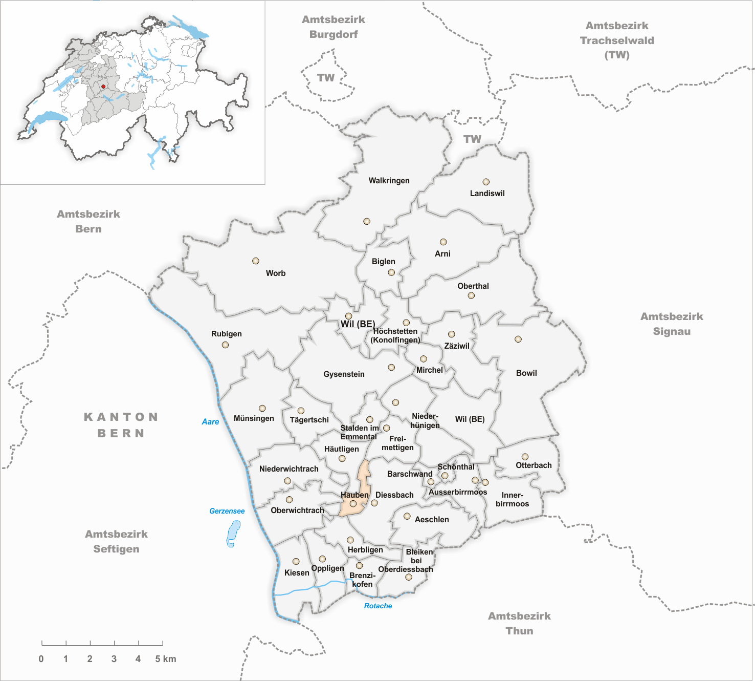 Municipality Hauben